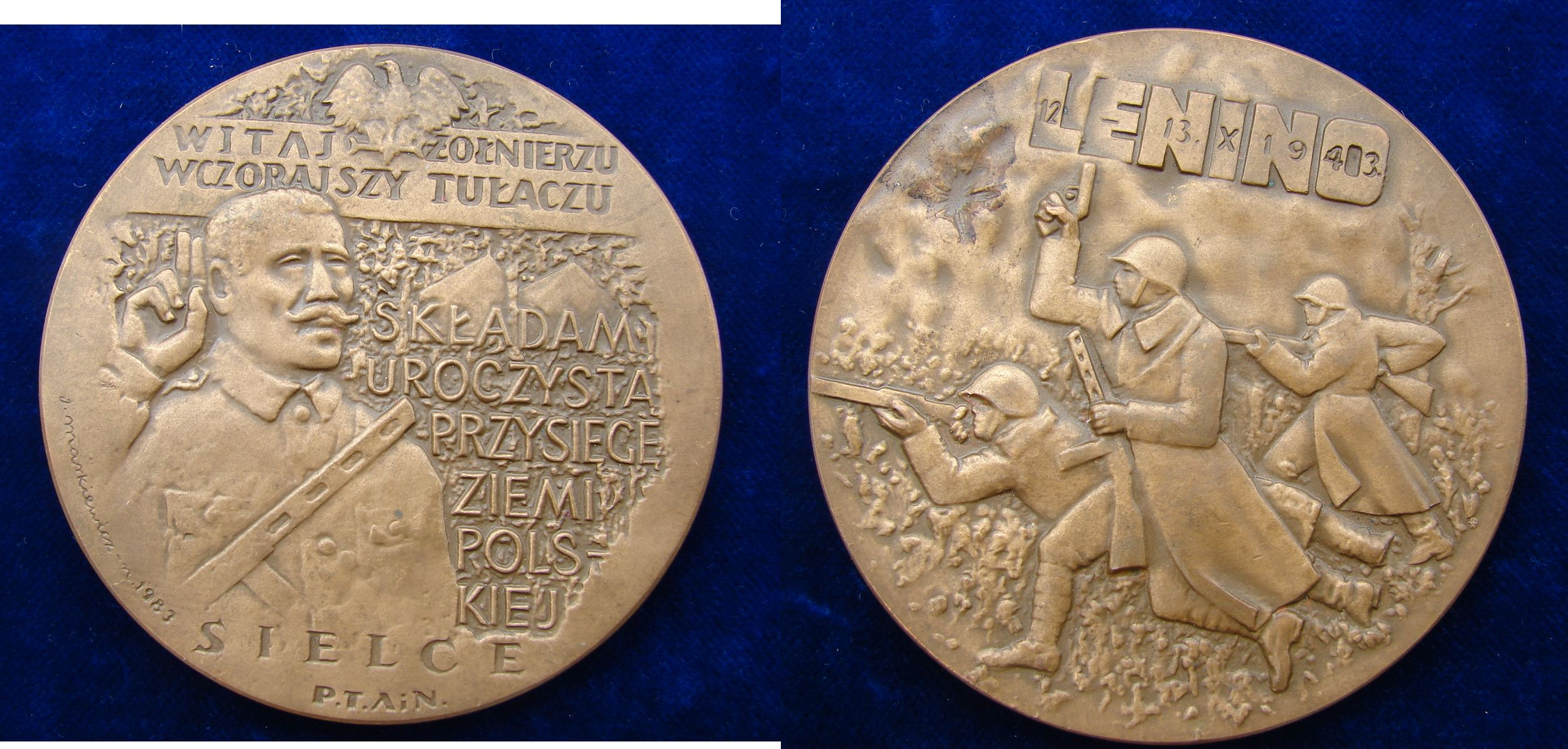 Polish Bronze medallion, D.= 70 mm in commemoration of the 40th Anniversary of the WWII battle of Lenino, Byelorussia. Polish soldier r. swearing his military oath. 2 lines above below the Polish Eagle: "WITAJ ŻOŁNIERZU WCZORAJSZY TUŁACZU". 6 lines at r.: "SKŁADAM UROCZYSTĄ PRZYSIĘGĘ ZIEMI POLSKIEJ". 2 lines below: "SIELCE PTAIN". / "LENINO 12. - 13. X 1943" above battle scene. British Museum AN908479001 Medallist: J. (Józef) Markiewicz, Sculptor in Warsaw, 1913-1991 Condition: Uncirculated MS 63+